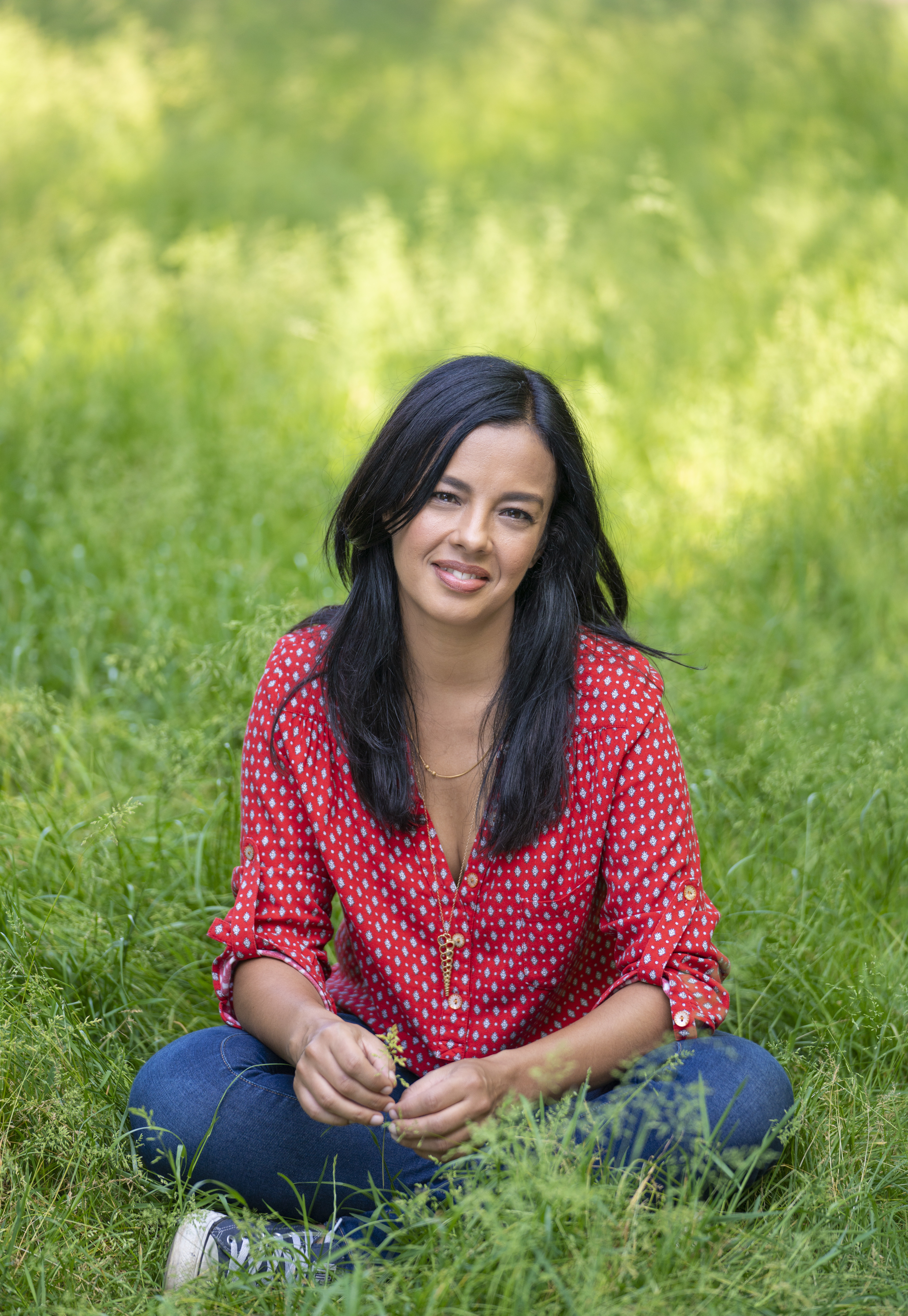 May0083544. Liz Bonnin for DT Features. Picture shows TV presenter Liz Bonnin, picture to illustrate a Joe Shute interview. Picture date 06/06/2018